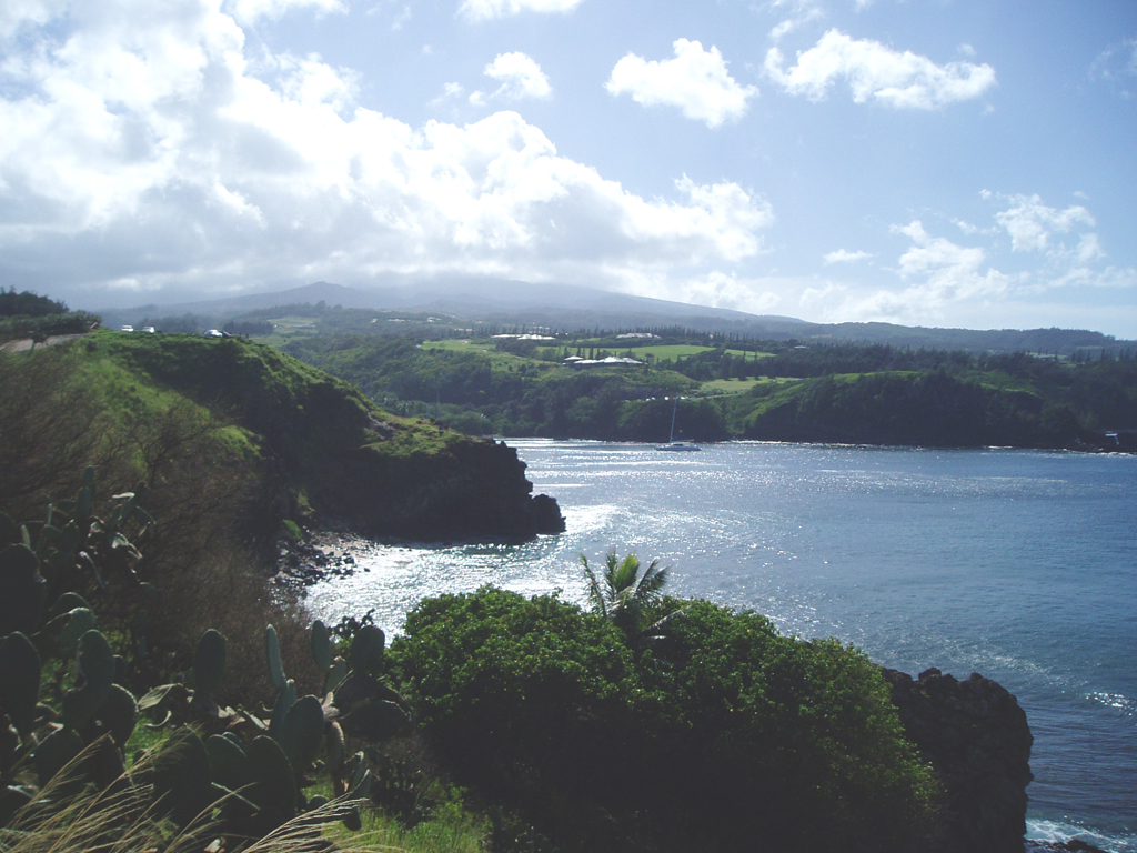 Photo of Honolua Bay taken from Lipoa Point, Maui, Hawaii